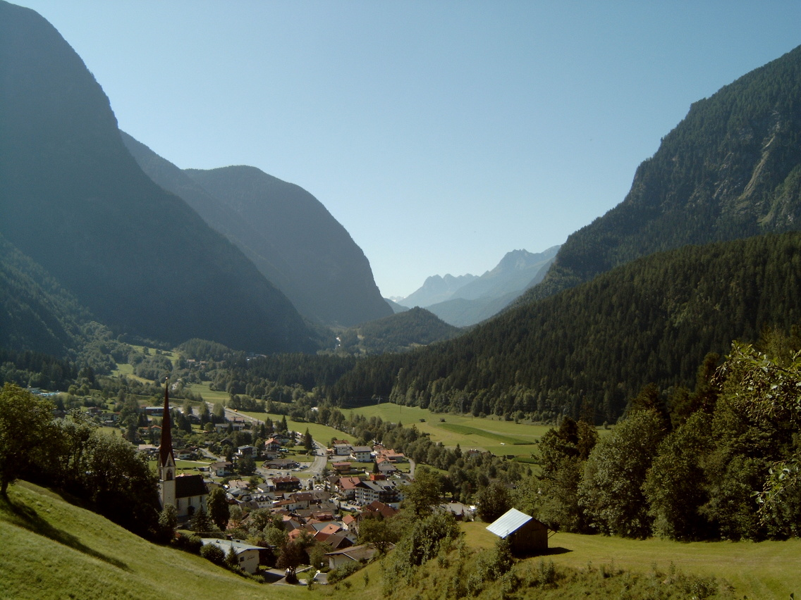 "Kühtaisattel", west ramp, view to "Oetz"